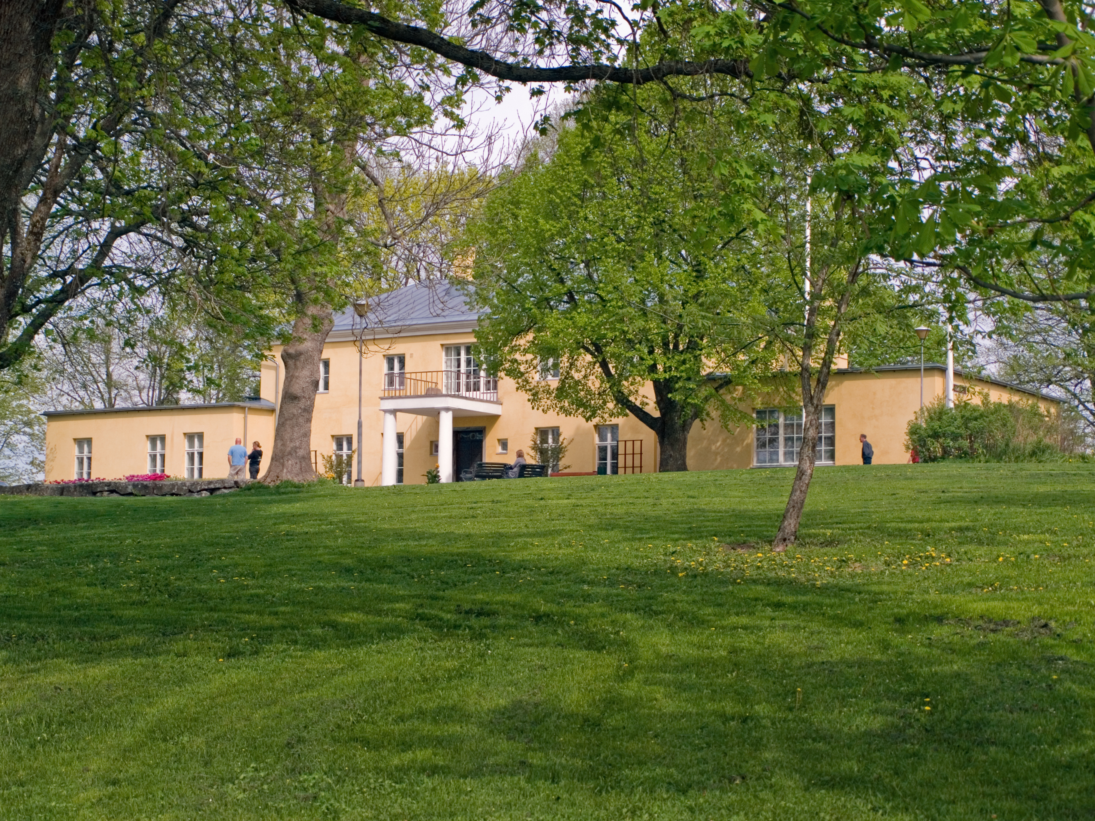 Main building of Maaseutuopisto in Tuorla, Kaarina, Finland, part of Livia vocational schools, formerly known as Tuorlan kartano. May 2014.